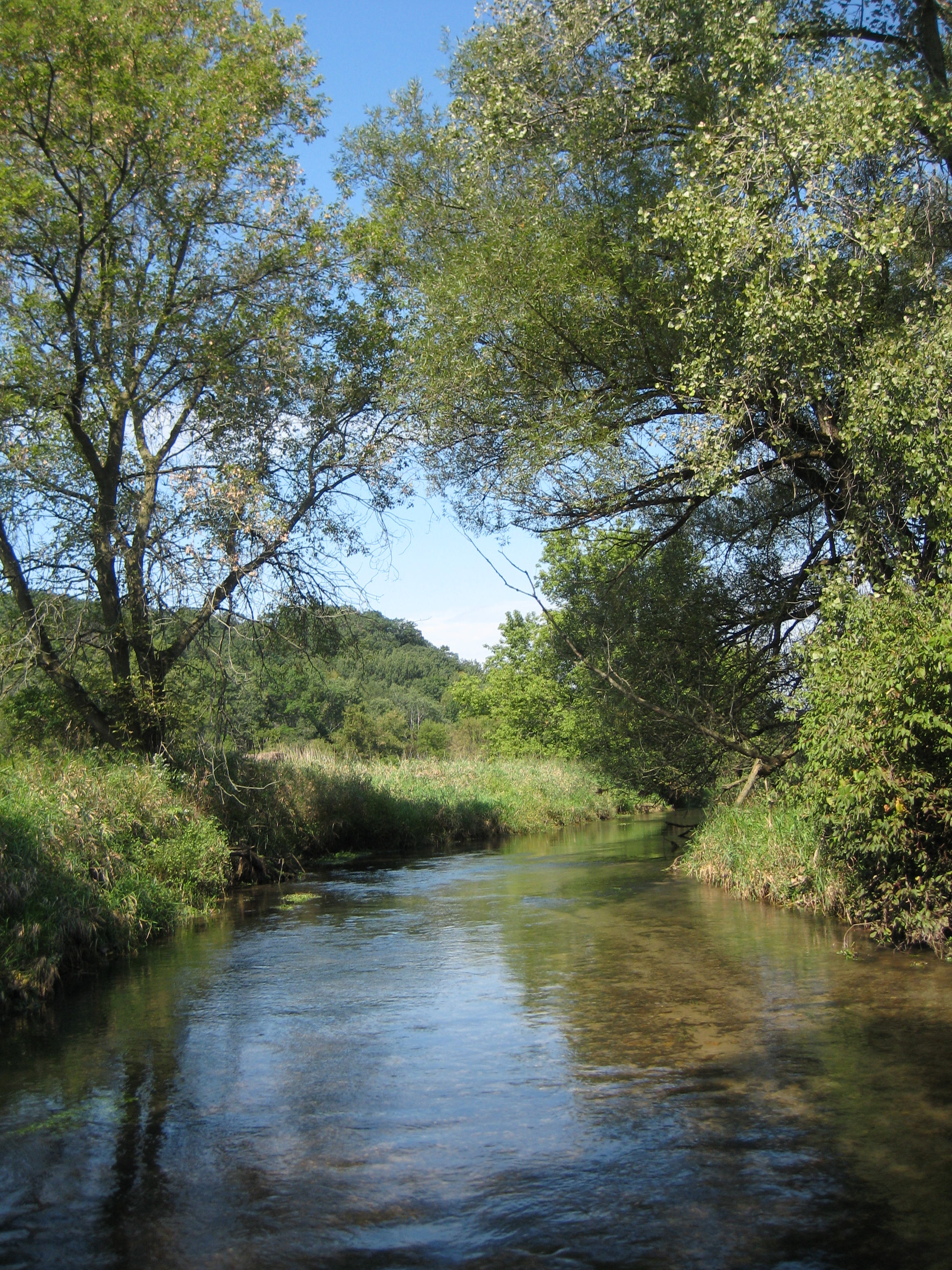 The Sugar River near Mount Vernon, Wisconsin.